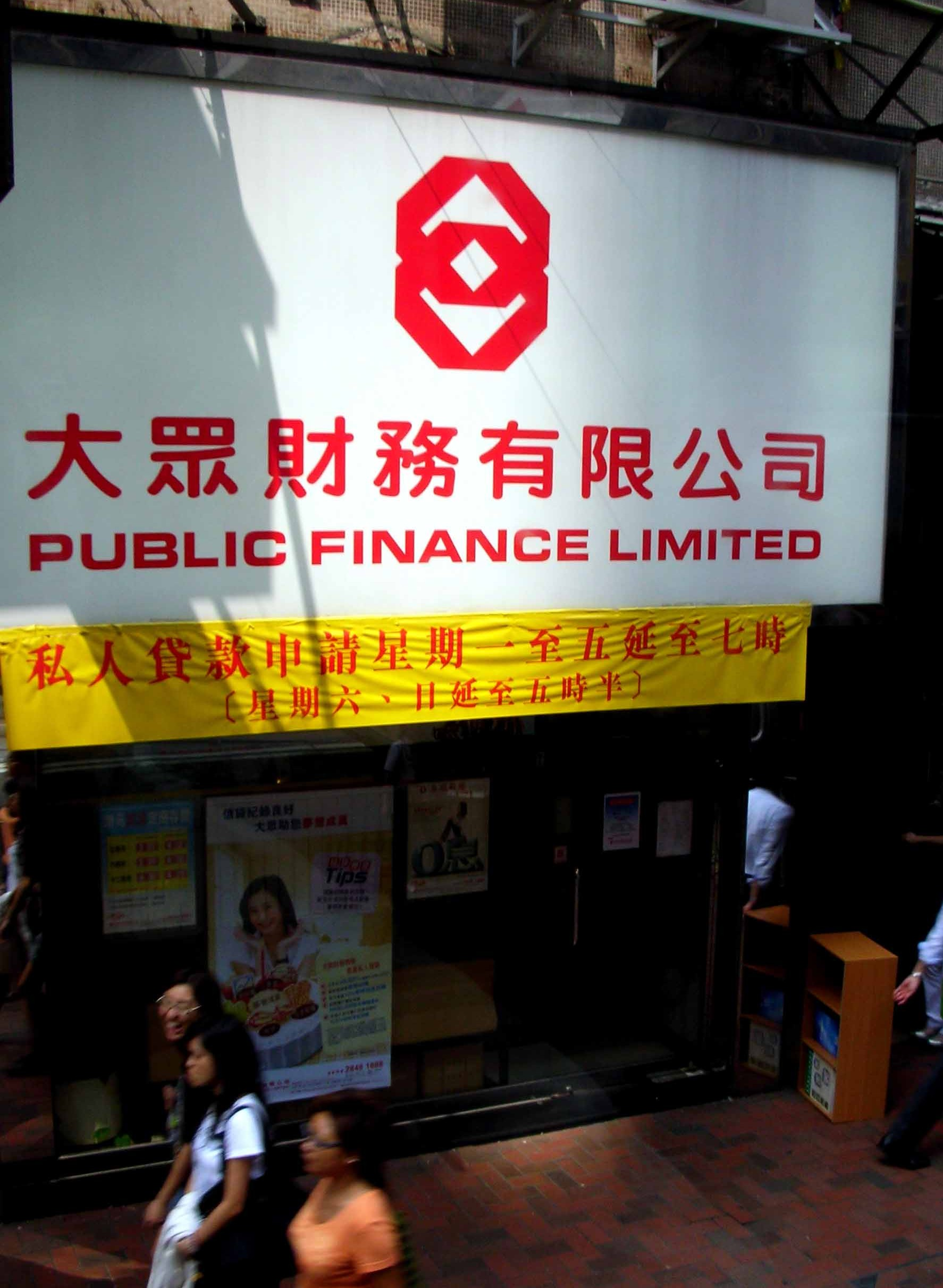 A branch of Public Finance Limited, located at North Point, Hong Kong